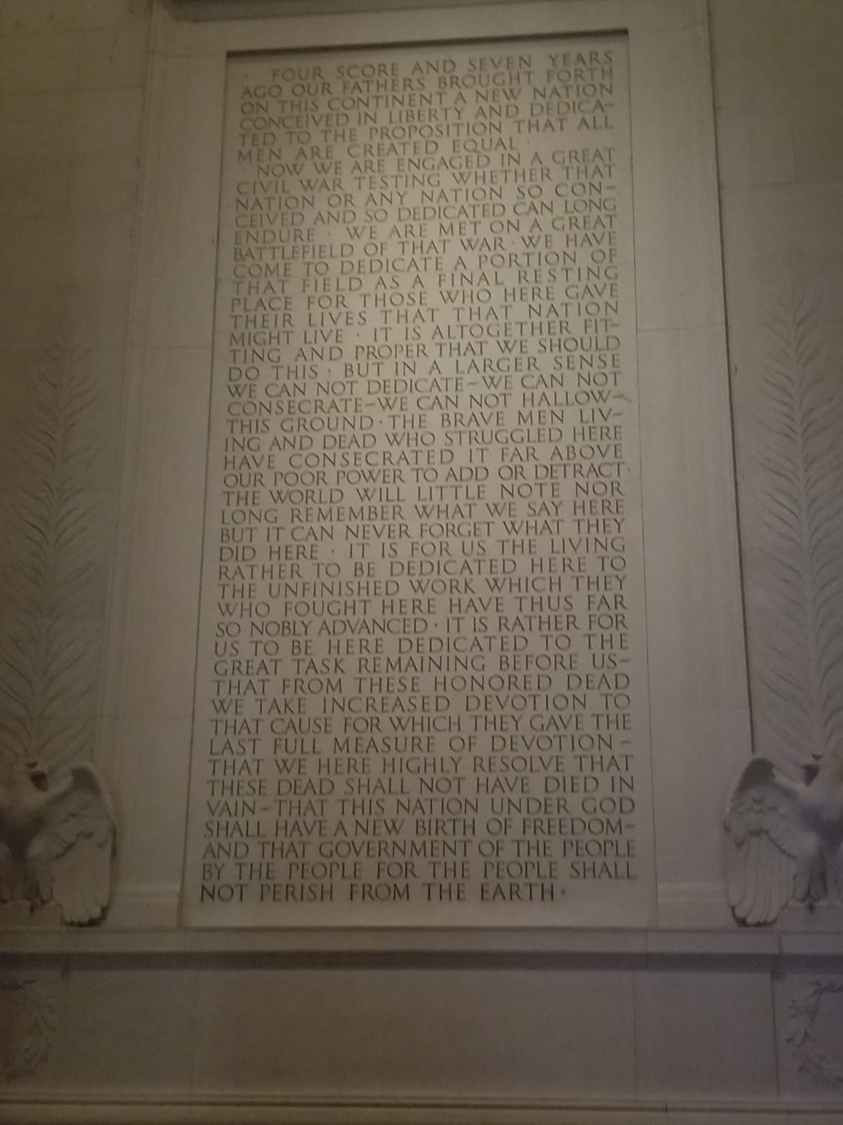 Gettysburg Address in the Lincoln Memorial